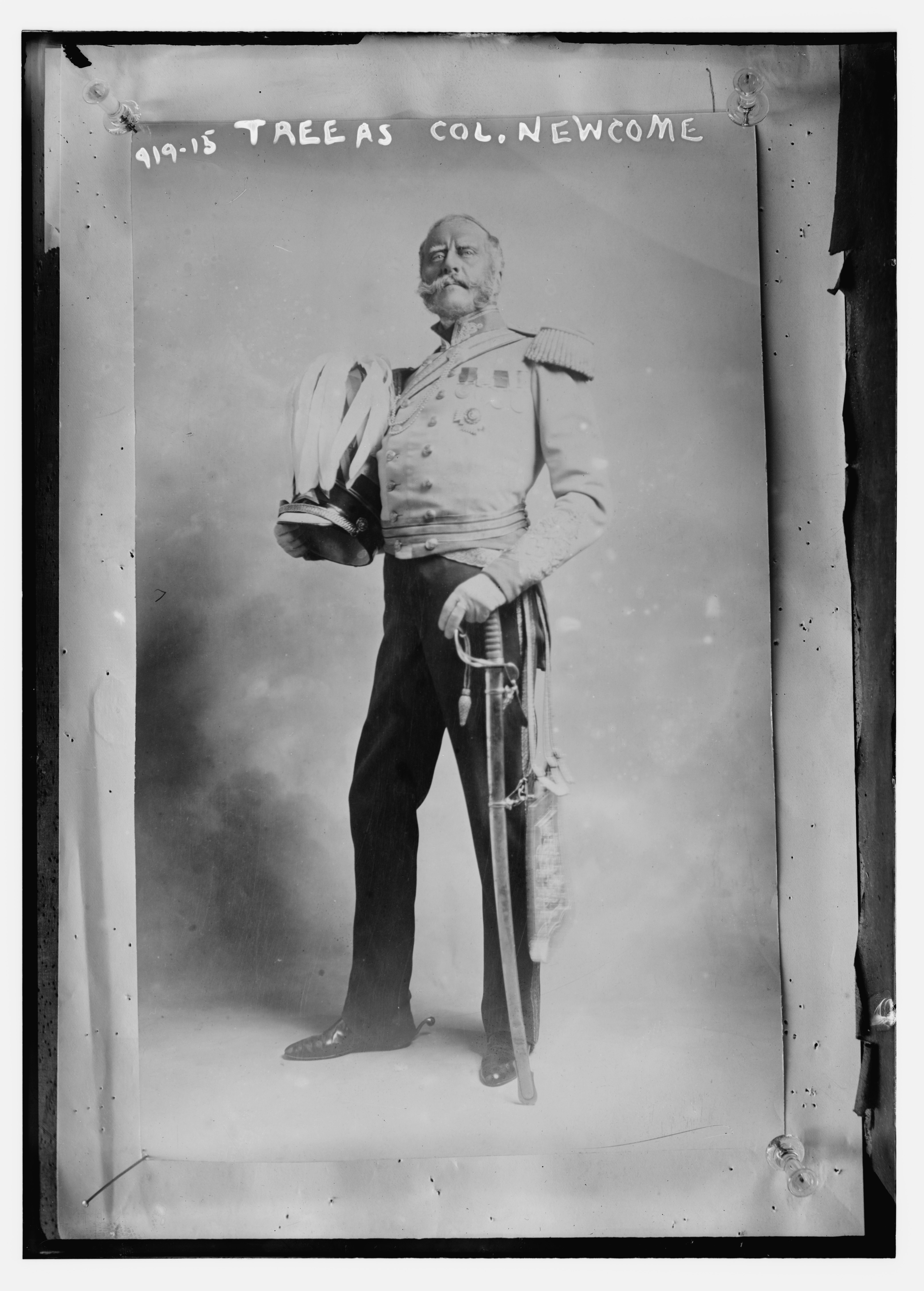 Title: Tree as Col. Newcome, in uniform Abstract/medium: 1 negative : glass ; 5 x 7 in. or smaller.